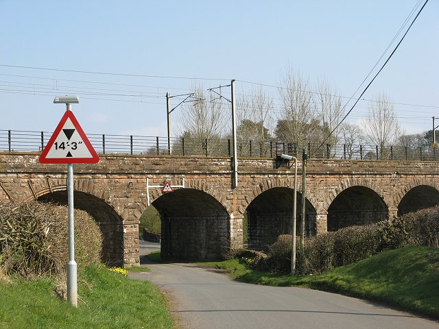 Kirtlebridge viaduct The main line to England from Glasgow crosses a village street and the Kirtle Water. Shows the local sandstone well.